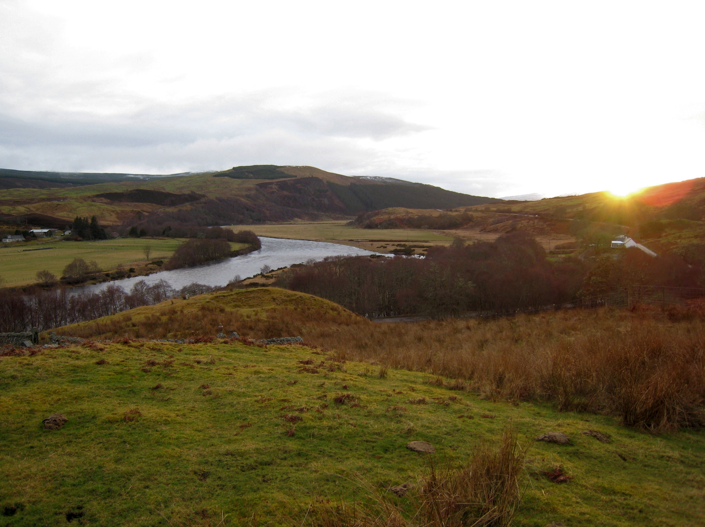 View of Strathoykel in northern Scotland looking west (upstream) from Tutim cemetery at sunset. The cemetery wall is in the foreground, Brae farm on the left of the photo, and Tuiteam house on the right. The mouth of the Tutim Burn can be seen entering the River Oykel roughly level with Tuiteam house. The hill is Ben Chreagach. The site is notable for the Battle of Tuiteam Tarbhach which took place around Tuiteam house in about 1406.